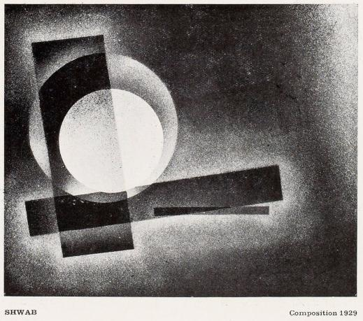 A reproduction of a print by Walmar Schwab that appeared on page 13 of the Paris art review Art Concret in April 1930